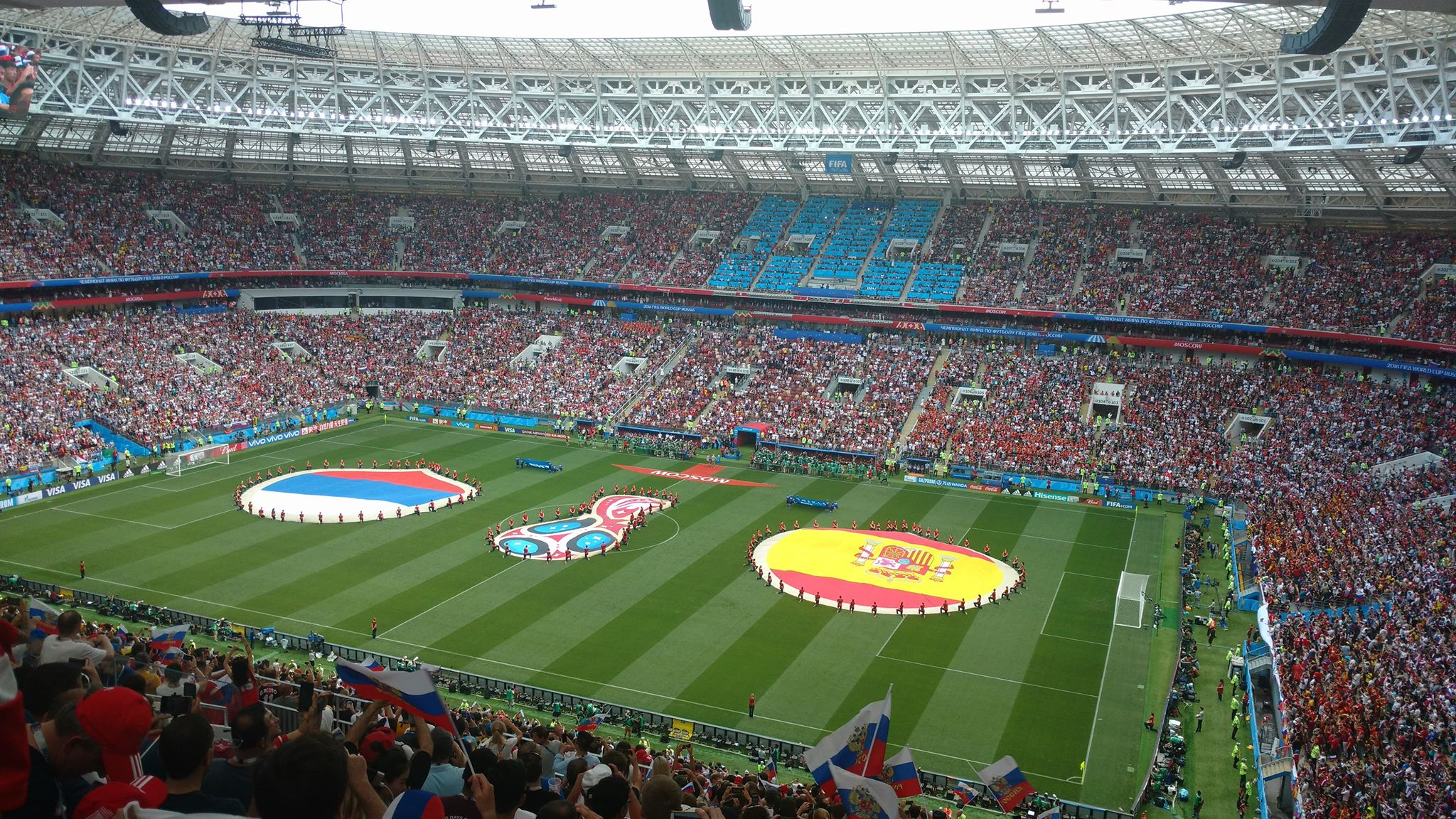 Picture of the 2018 World Cup Round of 16 between Russia and Spain. This picture was taken minutes before the commencement of the national anthems.